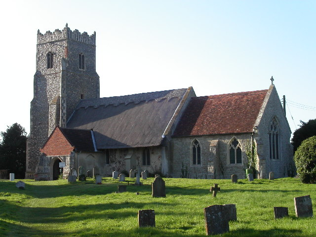 St Botolph's Church, Iken. The Anglo-Saxon Chronicle records that in AD 654 'Botwulf began to build the minster at Icanho'. Better known now as St Botolph.